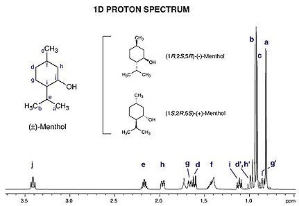 NMR spectrum of menthol racemic. From link]